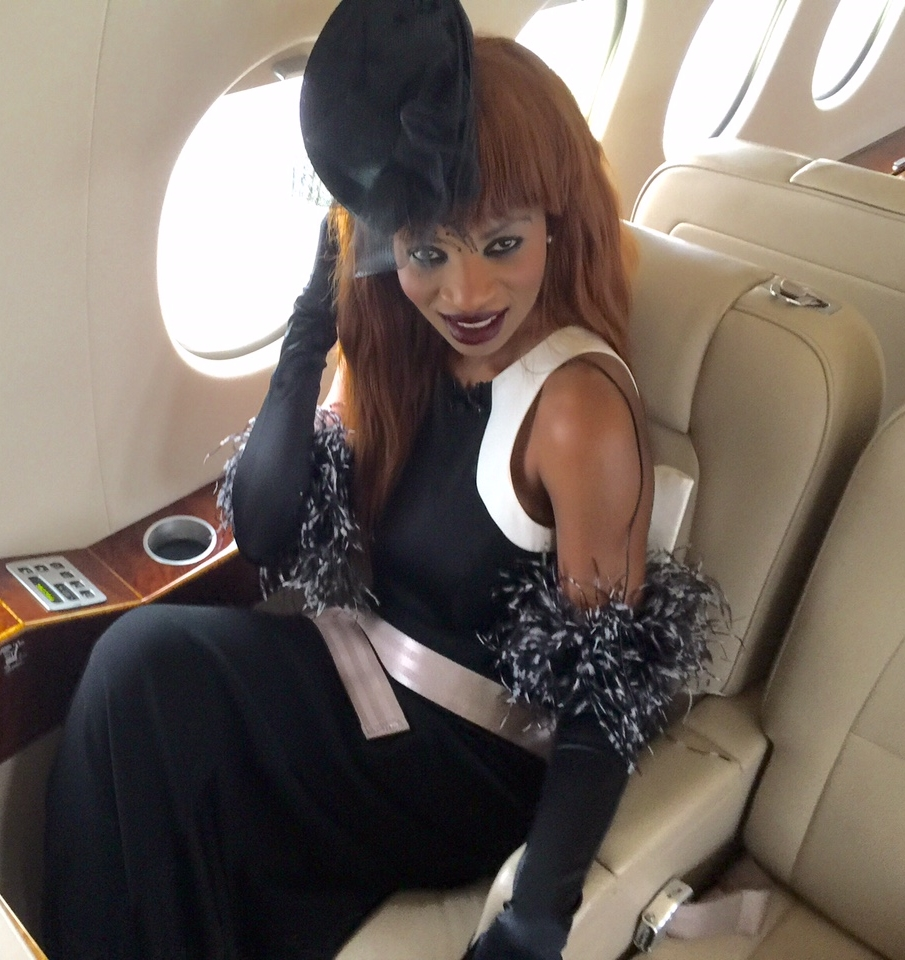 Irene Major in Dassault Falcon 2000 private jet